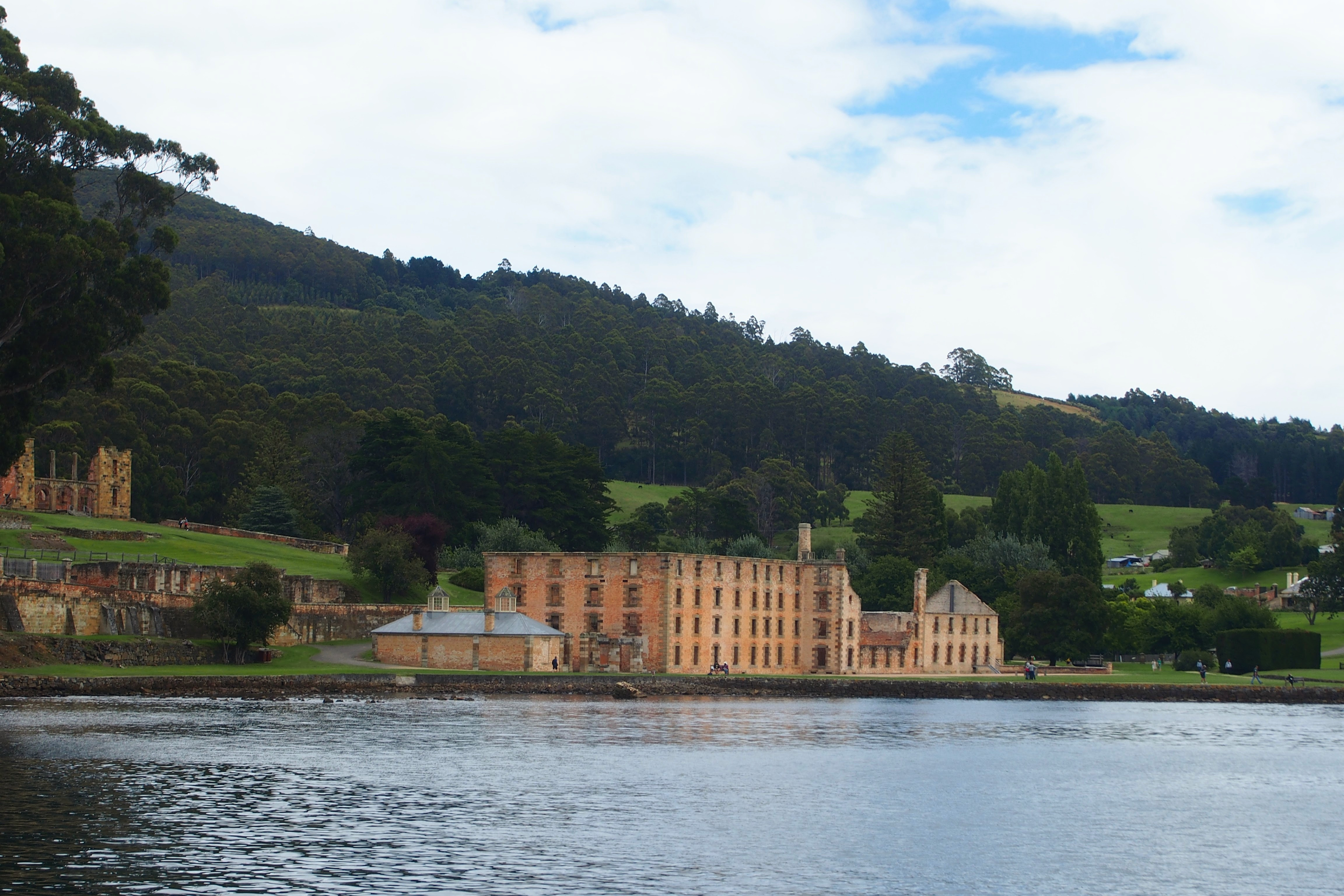 Port Arthur Penitentiary and surrounds, taken from Mason Cove